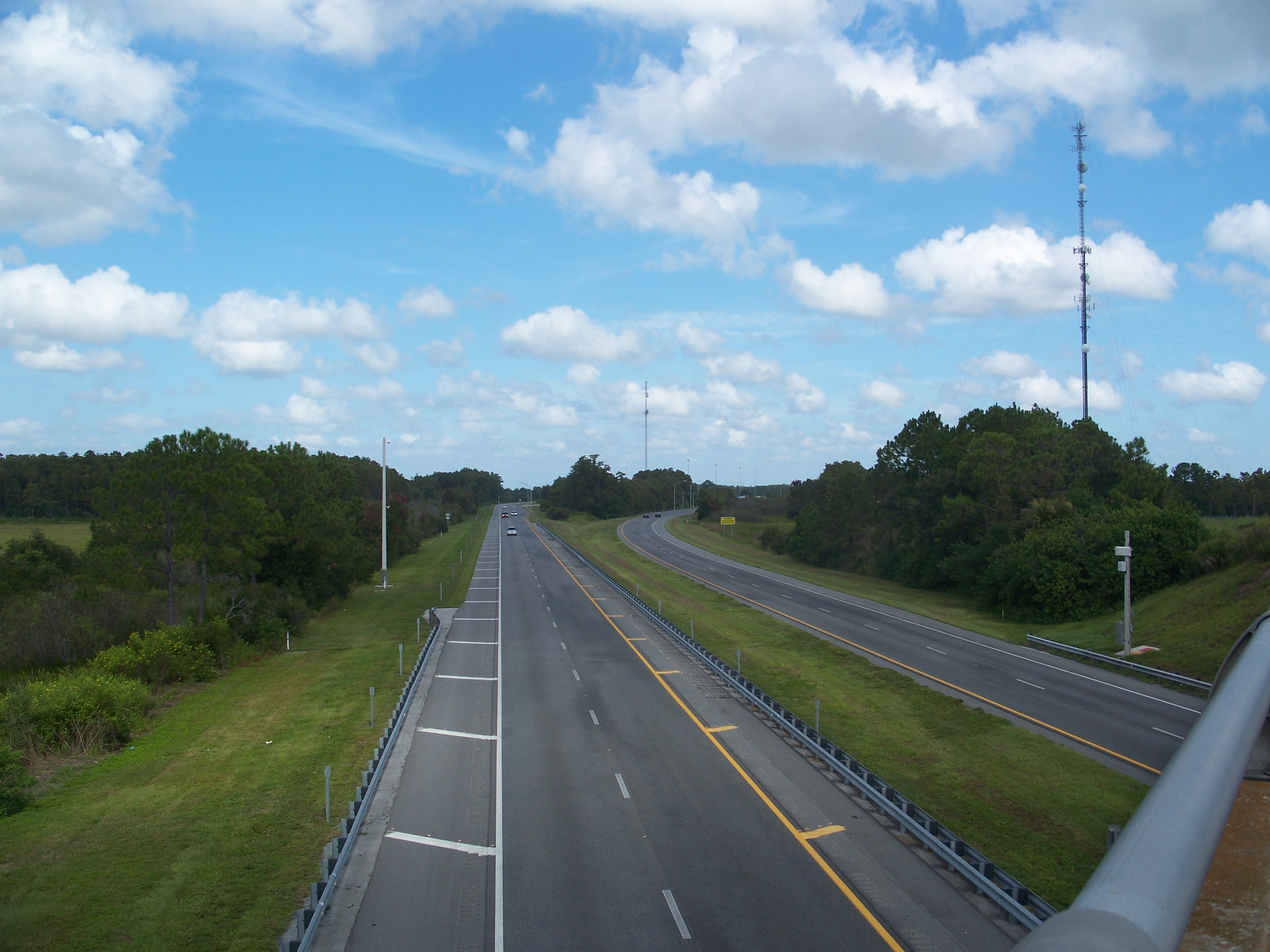 Florida's Turnpike: Looking west from the overpass on Canoe Creek Road near Cypress Lake.